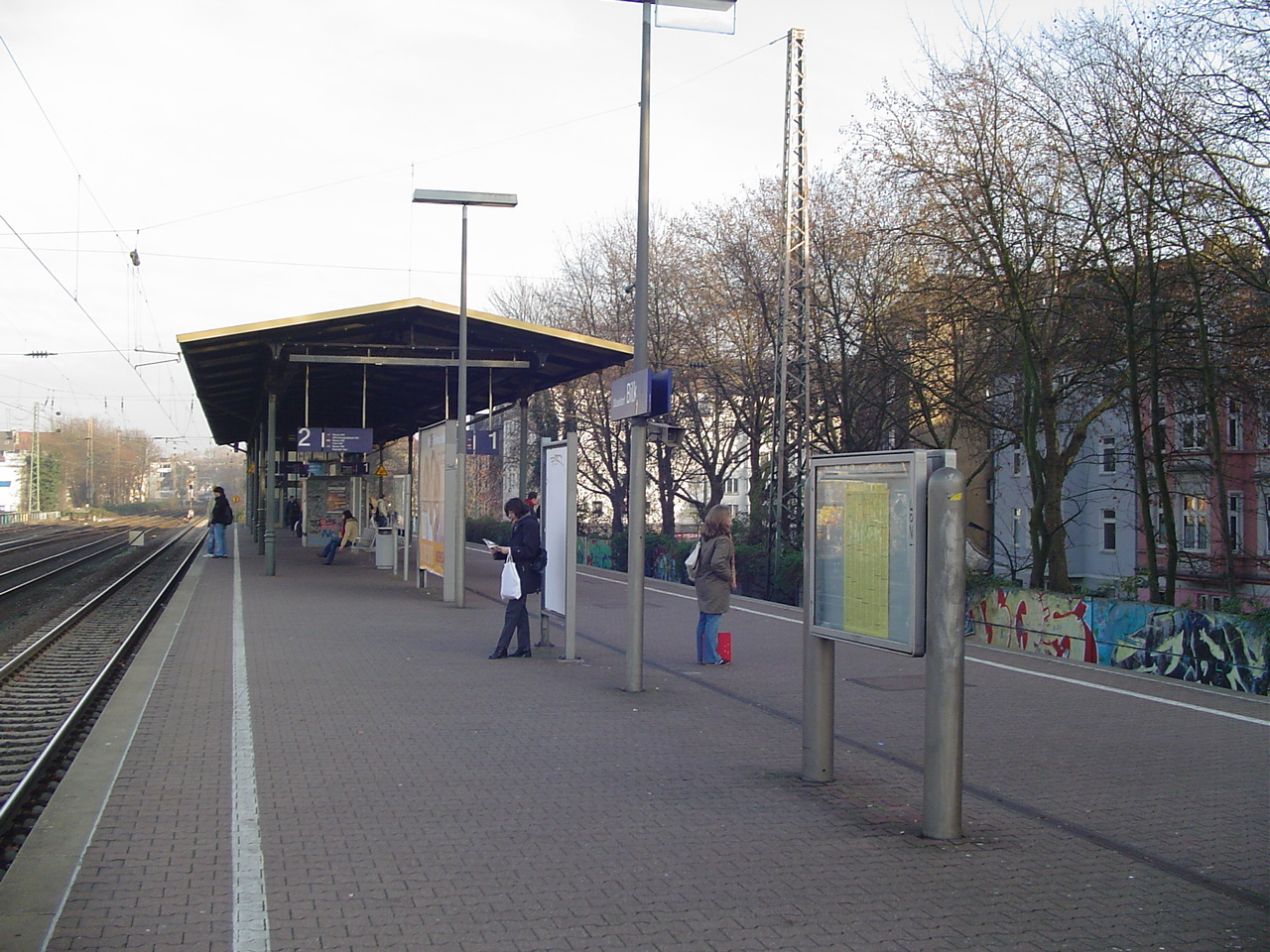 S-Bahn station in Düsseldorf-Bilk, Germany